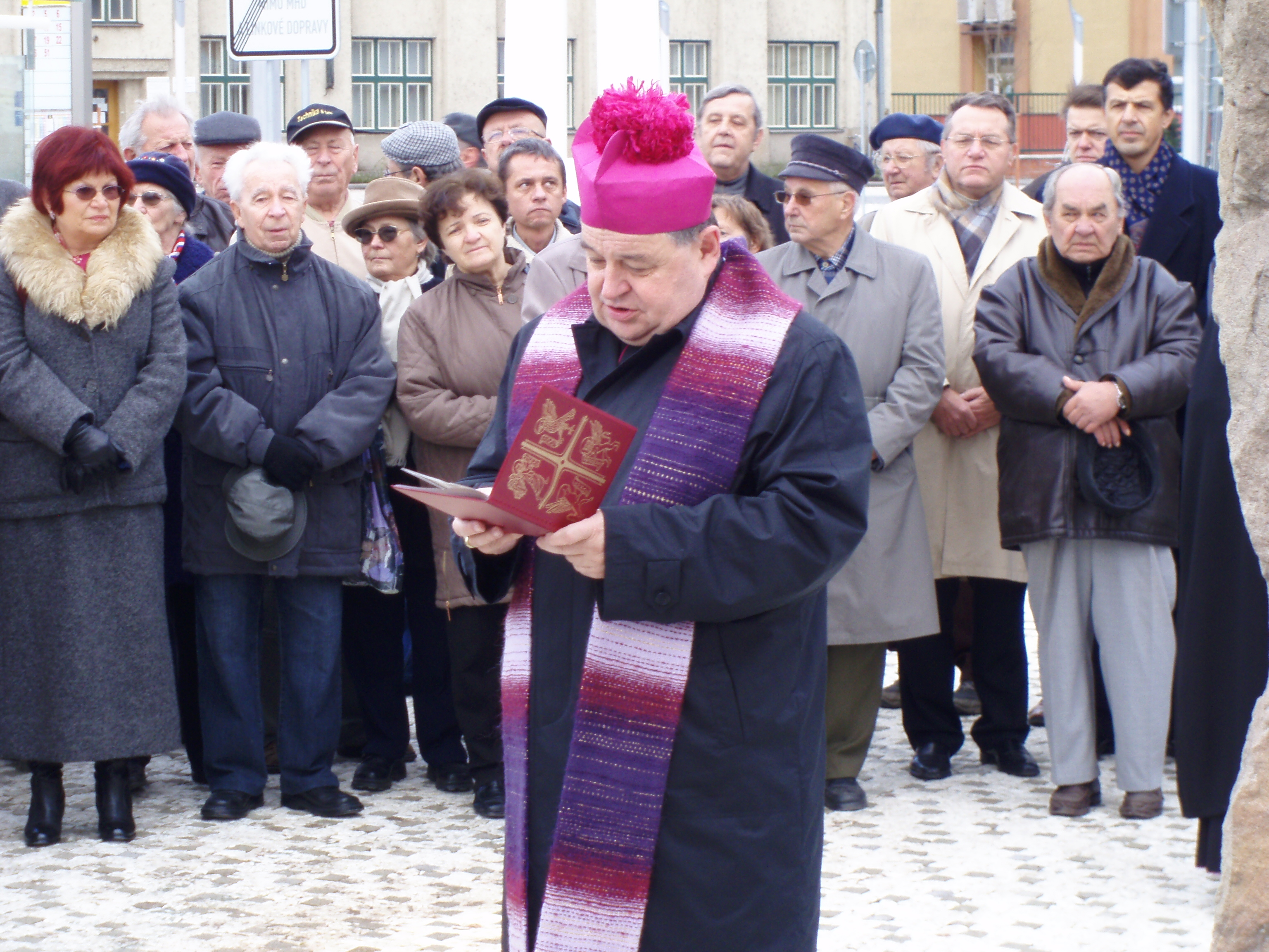 Dominik Duka, Bishop of Hradec Králové